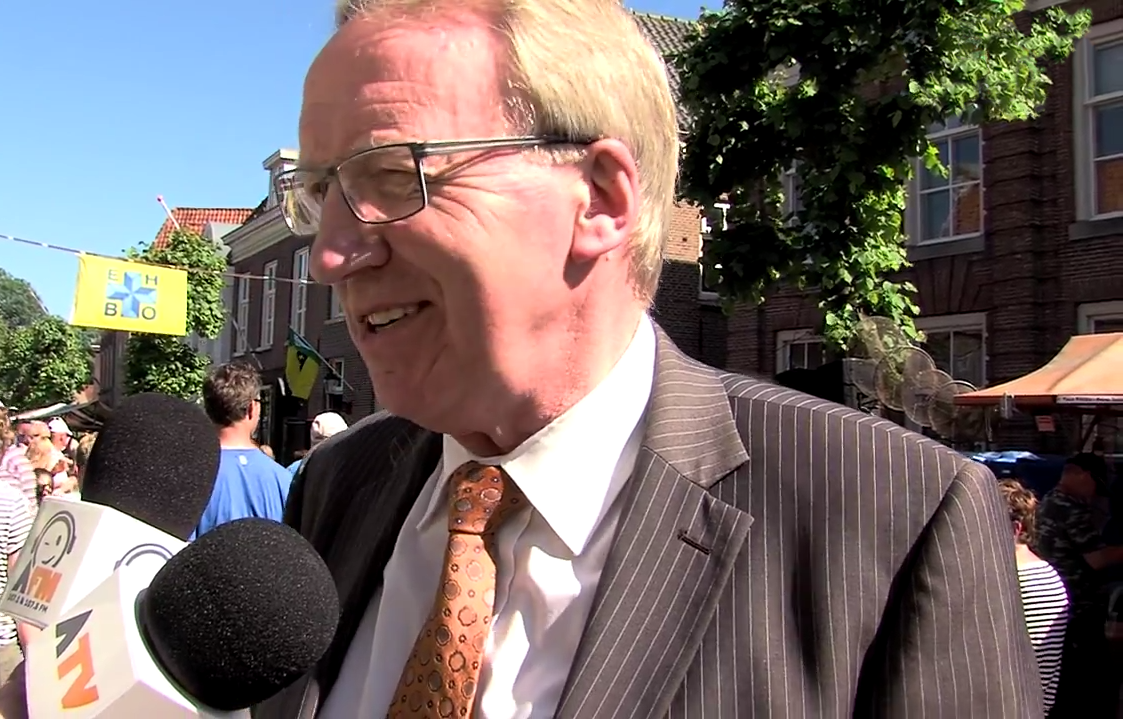 Mayor Arie Noordergraaf during the Fish Baking Competition 2017